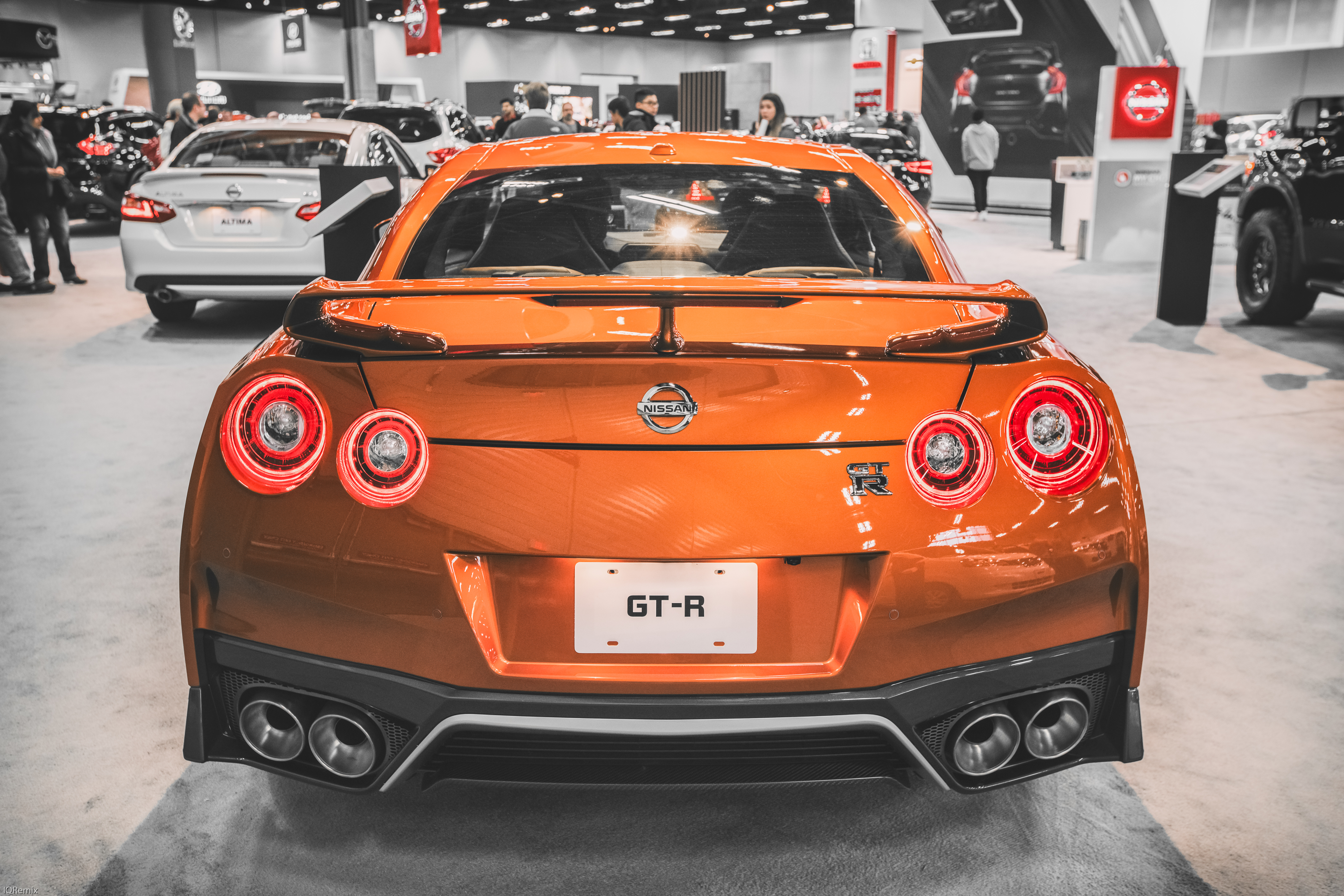 Edmonton Motor Show 2017